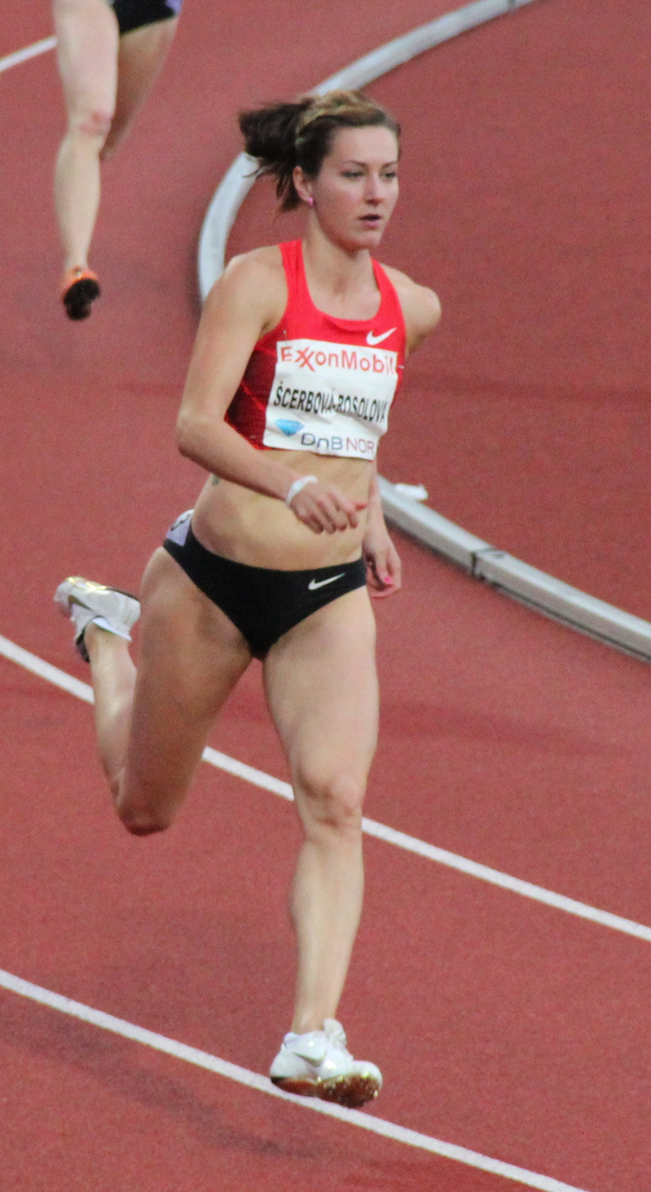 Denisa Rosolová at the 2011 Bislett Games